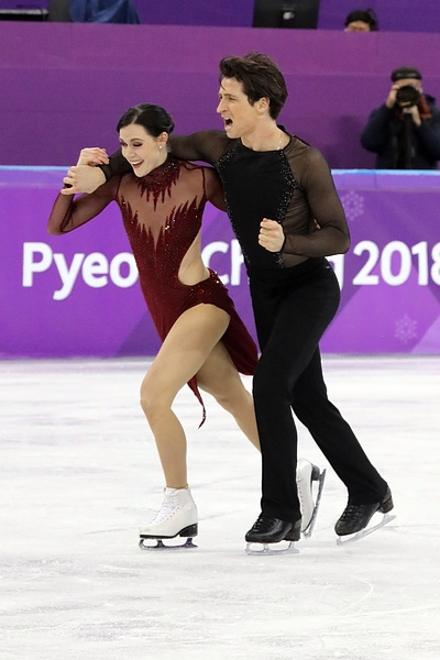 Tessa Virtue and Scott Moir at the 2018 Winter Olympic Games in PyeongChang